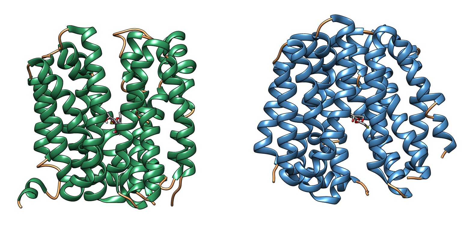 Structure of LacY in an outward (left) and inward (right) facing state. Make with UCSF Chimera using the PDB models 4OAA and 2Y5Y